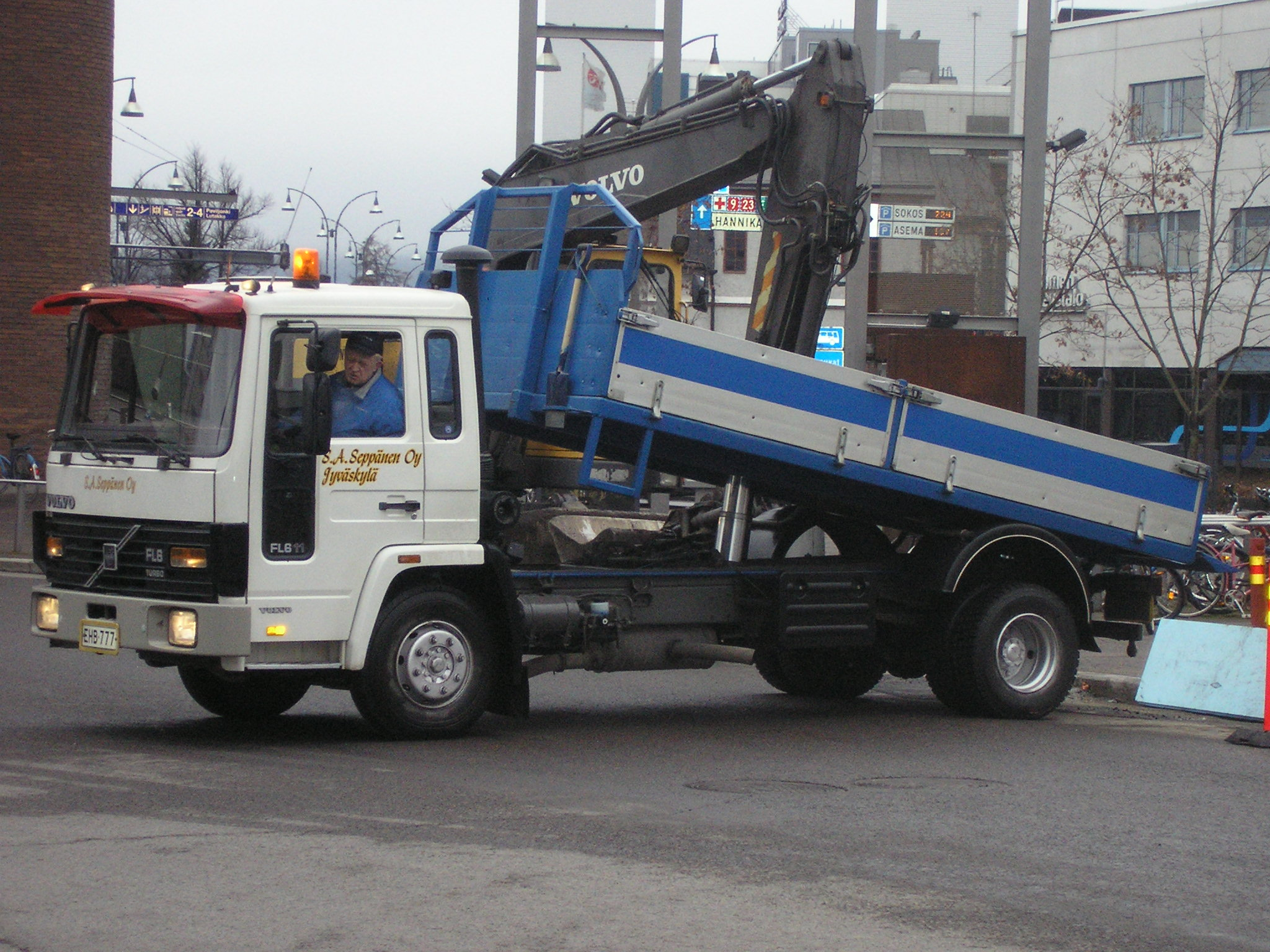 Volvo FL6 tipper lorry in Jyväskylä, Finland